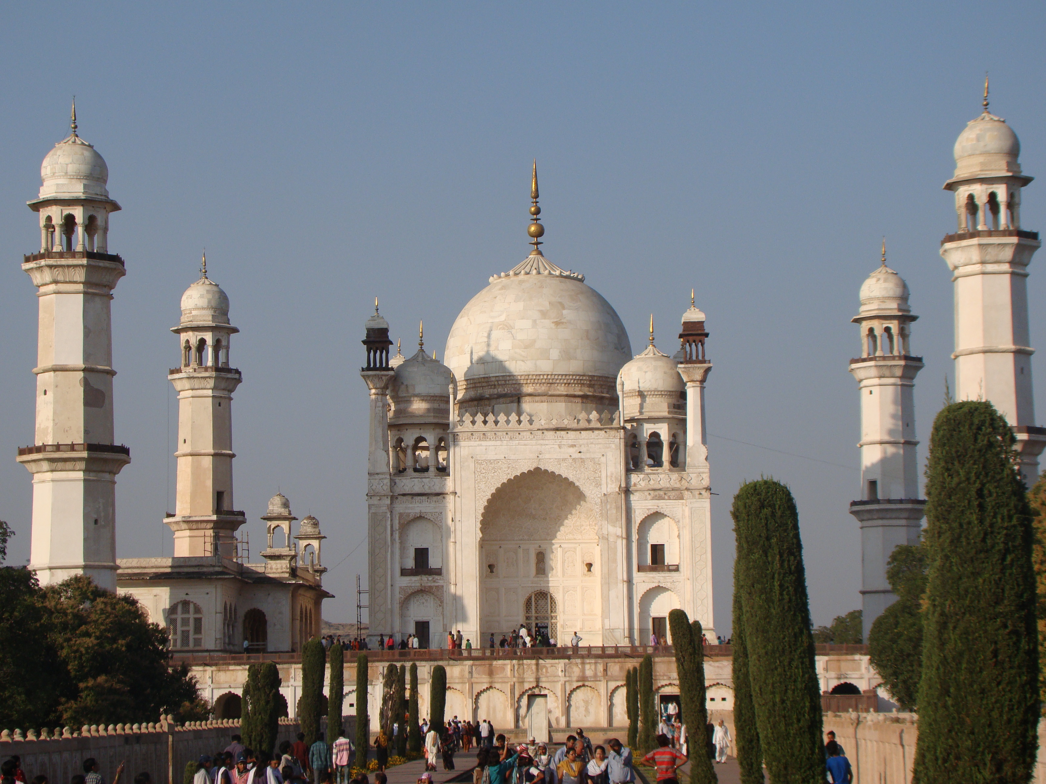 Tomb of Rabia Daurani (Bibi-Ka-Maqbara)